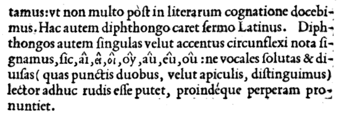 Example of circumflex over two vowels of French diphthongs proposed by Jacobus Sylvius in 1531